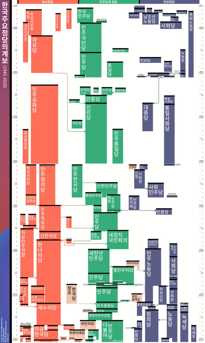 Timetable of major political parties of South Korea